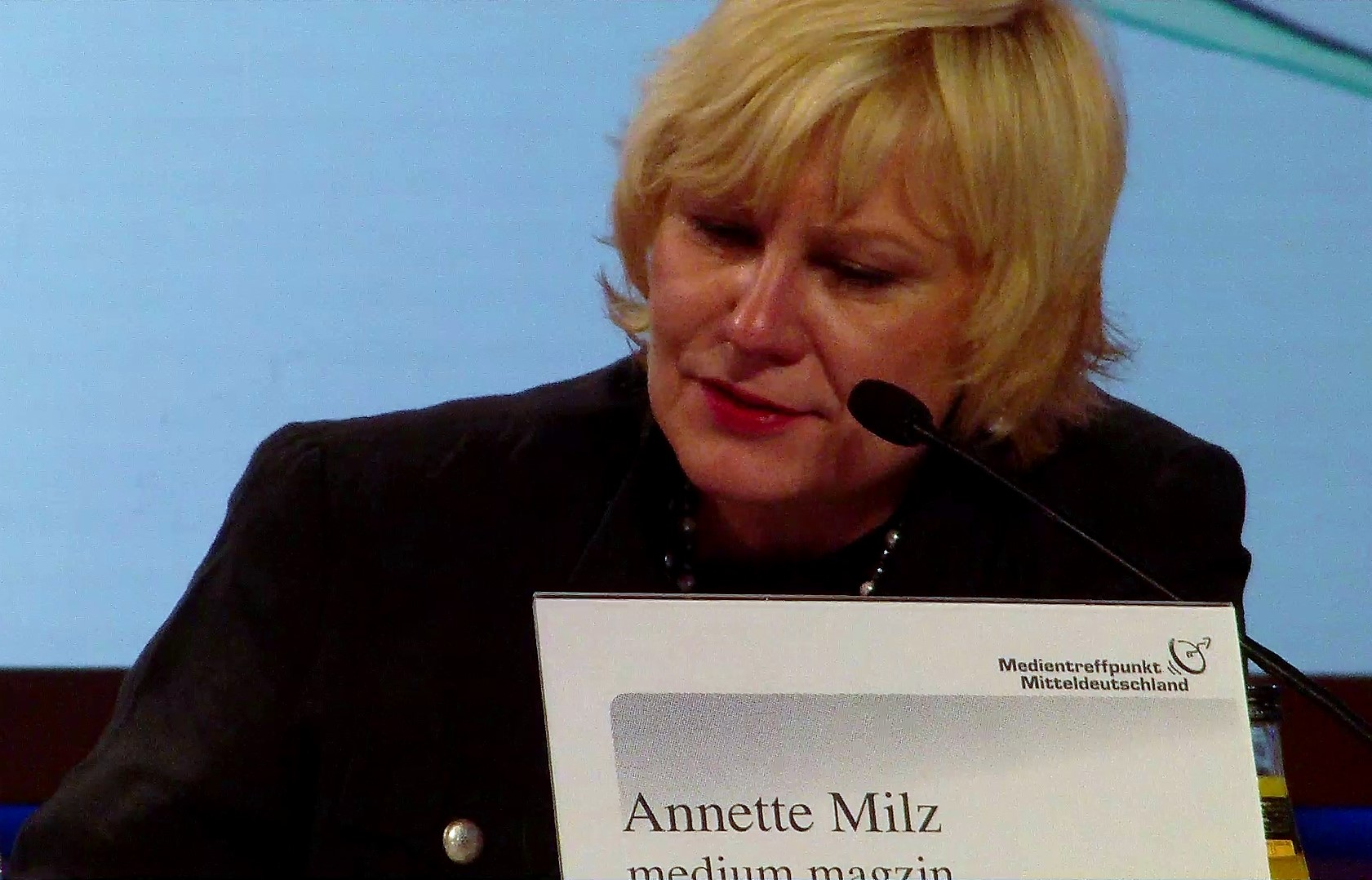 German journalist Annette Milz